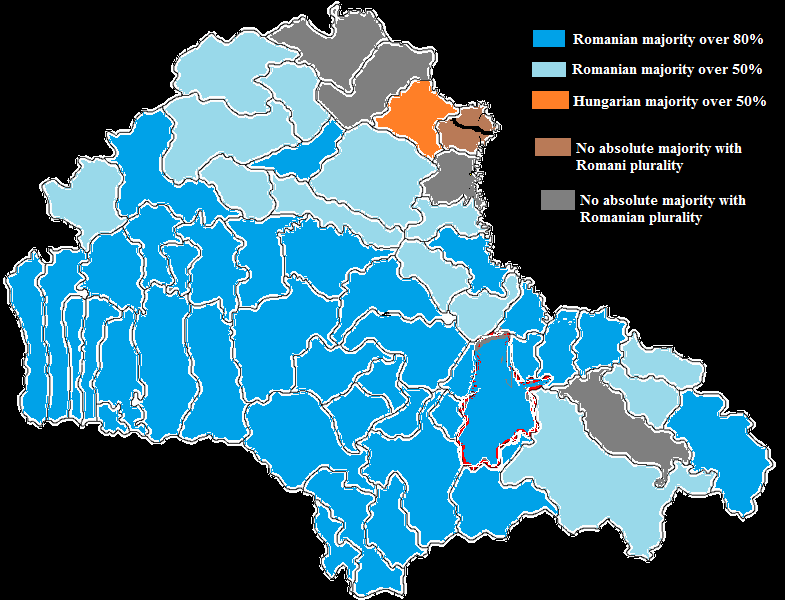 Ethnic map of Brașov County, based on the 2011 census.